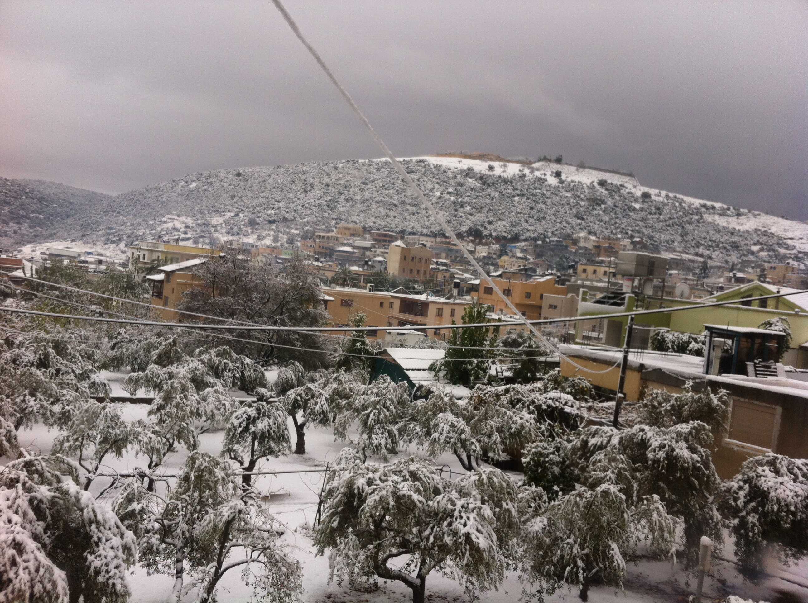 Horfesh village snow, Geography of Israel